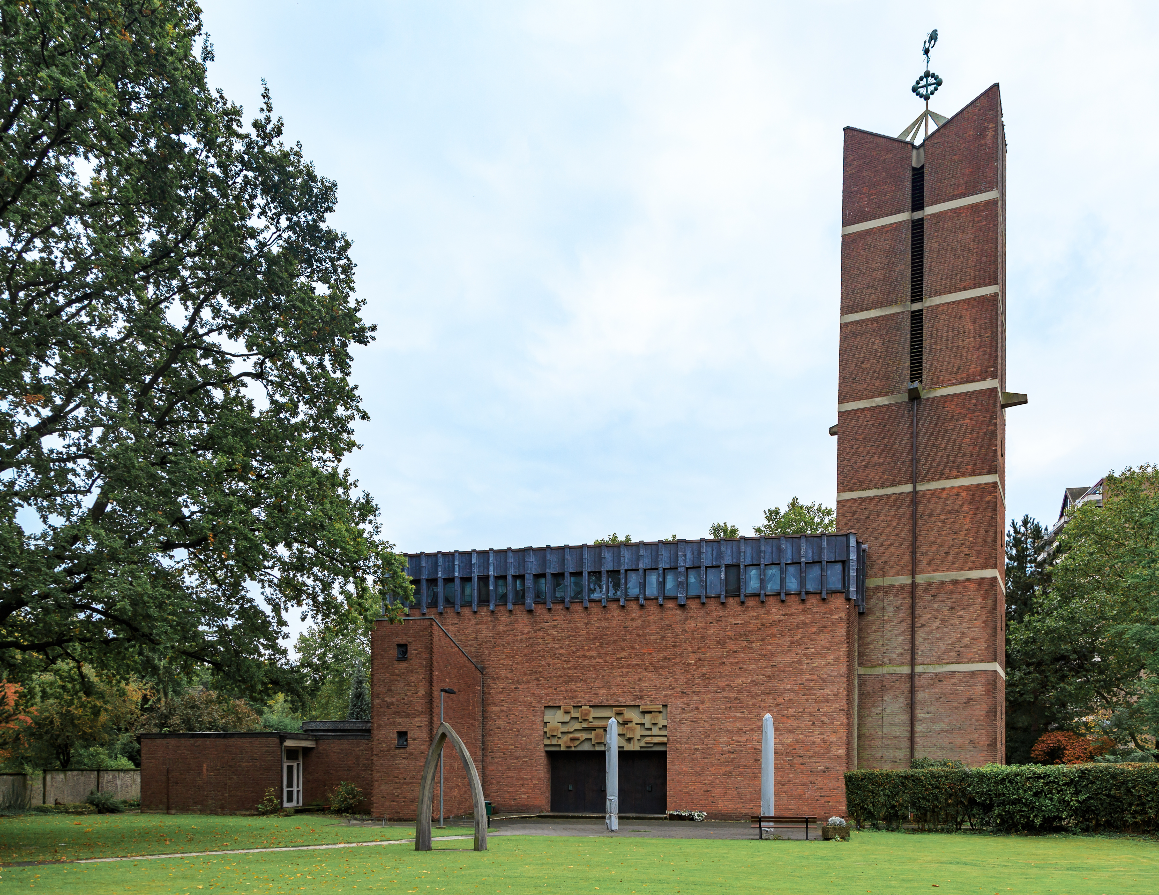 Cologne-Weiden, Germany: Roman catholic church "Heilig Geist"